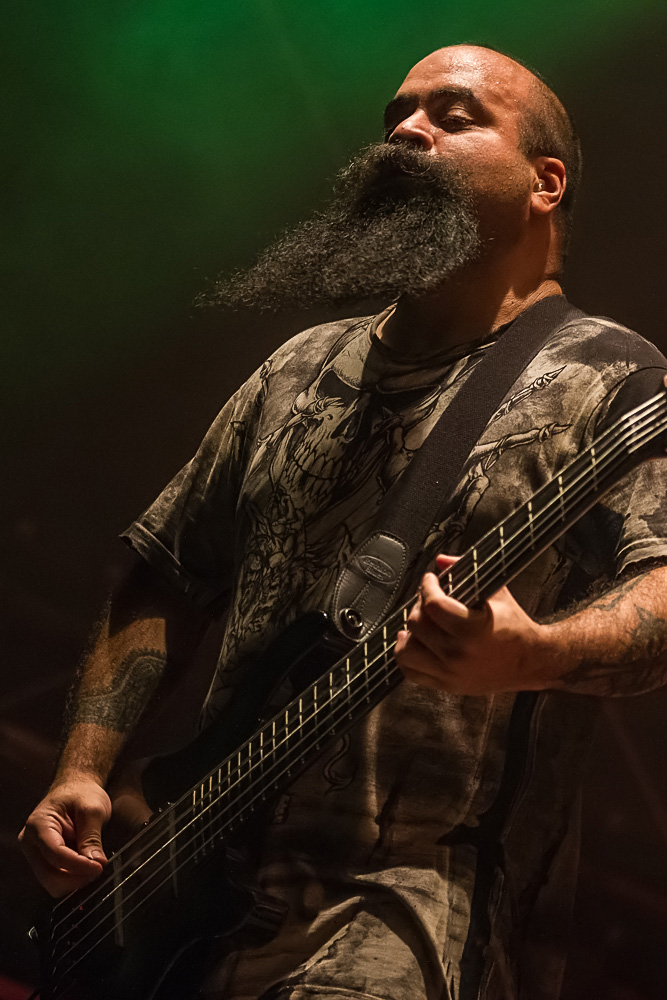 Soulfly - Rock Harz 2013 - 12-07-2013